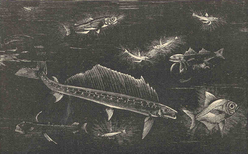 Luminous fish of the deep sea. Drawing by Charles Frederick Holder 1892.